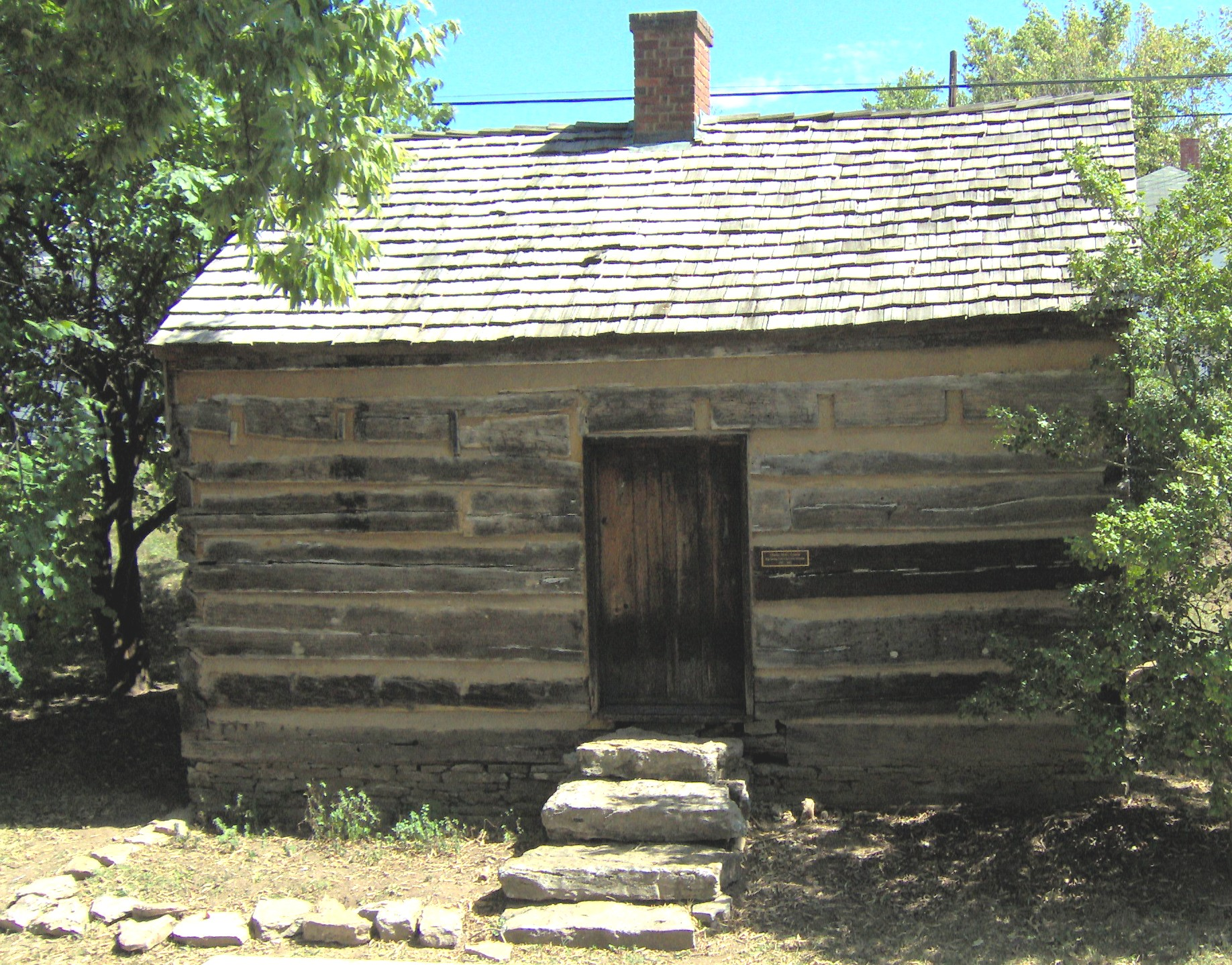 Museum at Royal Spring, the main source of water for Georgetown, Kentucky since earliest settlement as McClelland's Station in 1775.